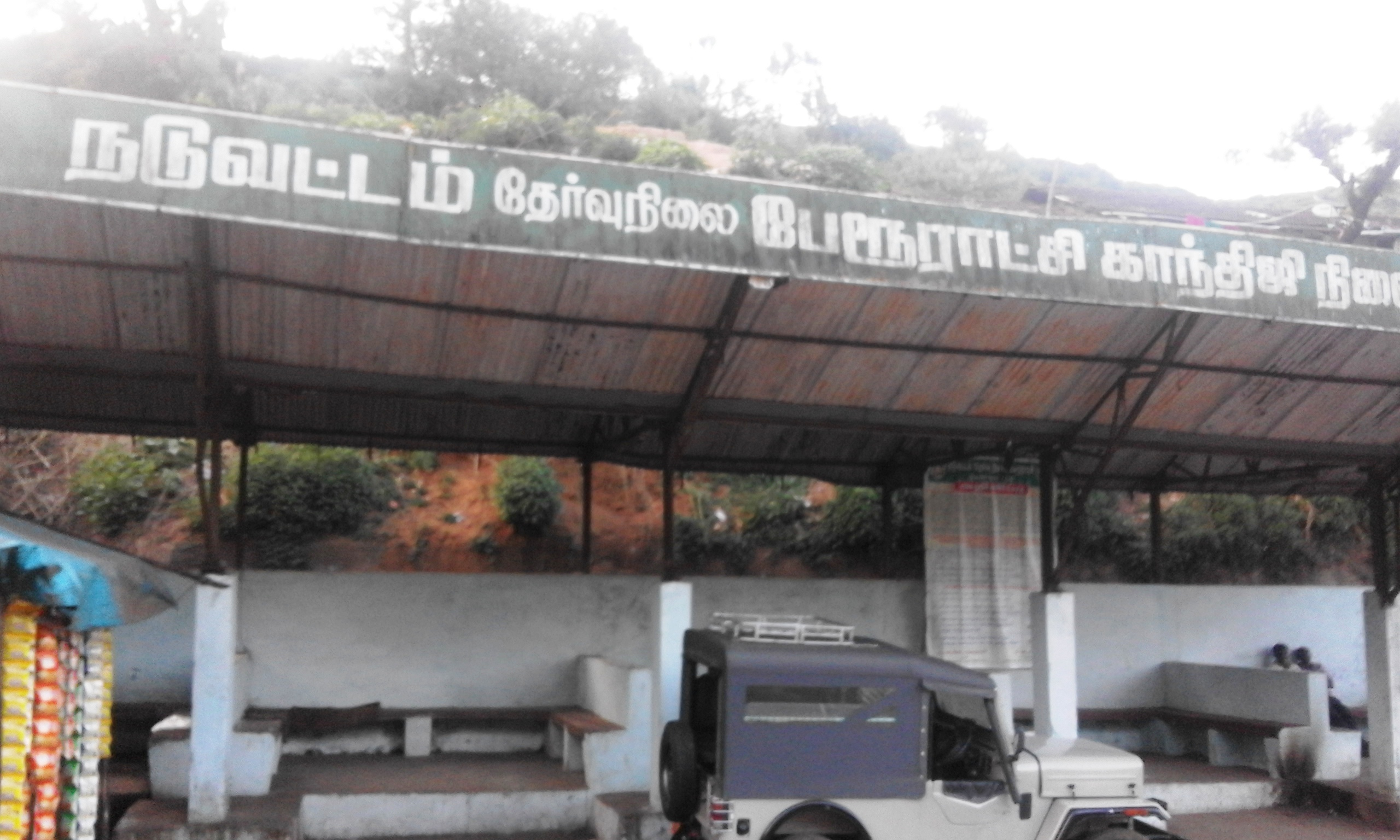 Naduvattom Town Panchayath, Gudalur, Nilgiris District, Tamil Nadu, India.